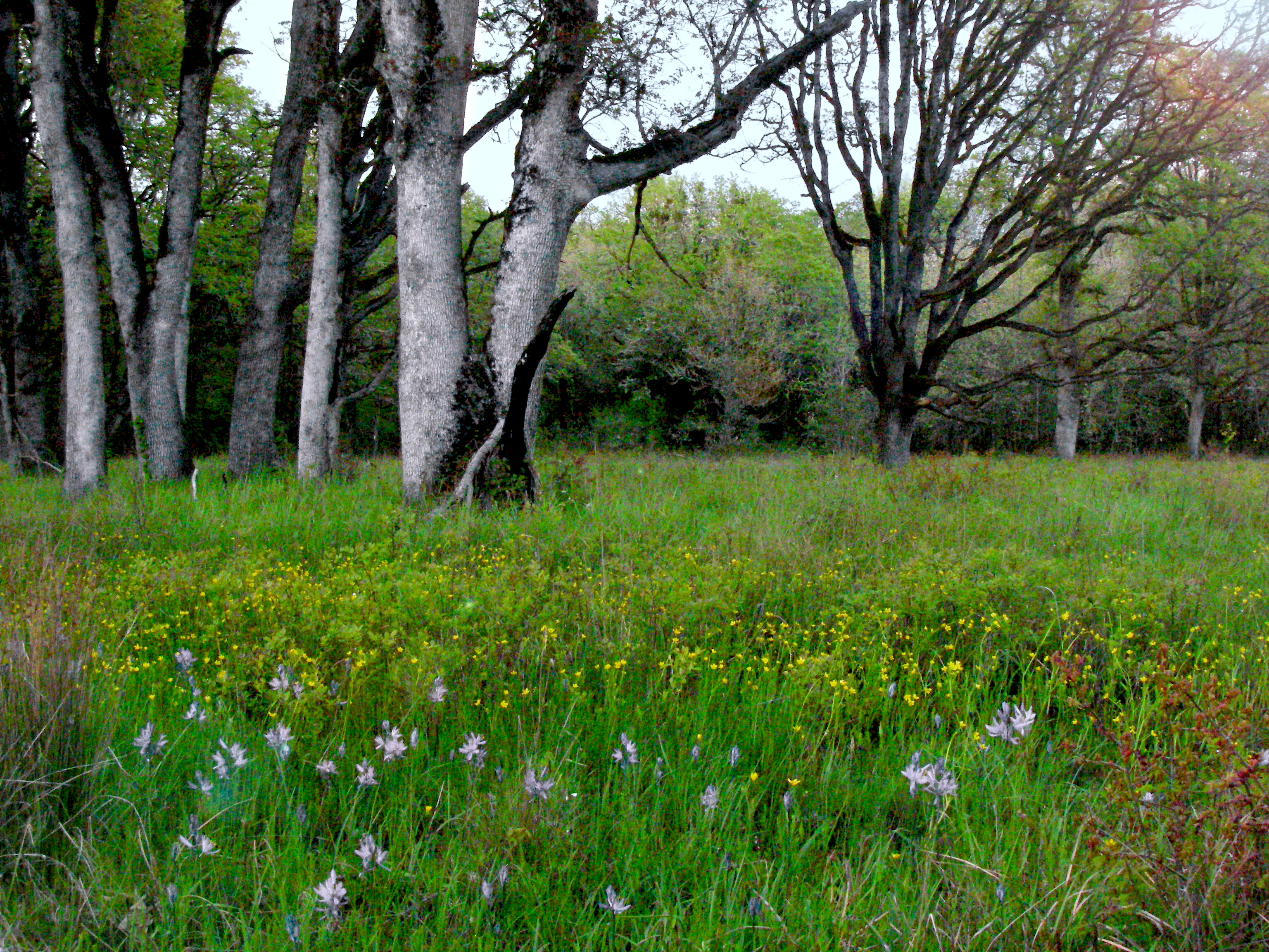 Scientific name: Ranunculus alismifolius Common name: Plantainleaf Buttercup Scientific name: Camassia quamash Common name: Camas Spring is here and the flowers are in full bloom at one of Oregon's natural gems. Located on the western edge of Eugene, Oregon, the West Eugene Wetlands (WEW) is a beautiful and rare area of grassland habitats. Comprised of less than one percent of the original native wet prairie, the WEW is home to over 200 species of wildflowers, plants, birds, and animals, including four threatened and endangered species: Fender’s blue butterfly, Kincaid’s lupine, Bradshaw’s lomatium, and Willamette daisy. The BLM's Eugene District, in collaboration with other Rivers to Ridges partners, works to protect and restore this vital wetland ecosystem in the Southern Willamette Valley. This unique project involves federal, state, and local agencies, as well as non-profit organizations, working together to manage lands and resources in an urban area for multiple public benefits. Each year, Willamette Resources & Educational Network (WREN) provides hands-on, minds-on environmental education to over 1,500 local students. Photo credits: Christine Williams, Mackenzie Cowan, Sandra Miles, Sally Villegas, and West Eugene Wetlands staff. For directions or to plan a visit to the West Eugene Wetlands